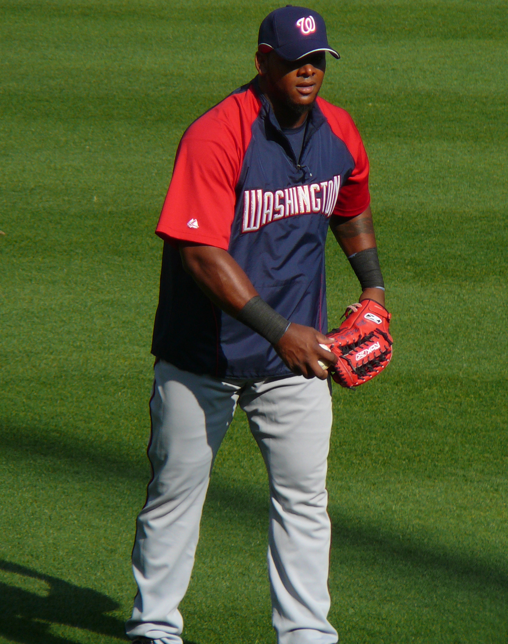 Wily Mo Peña